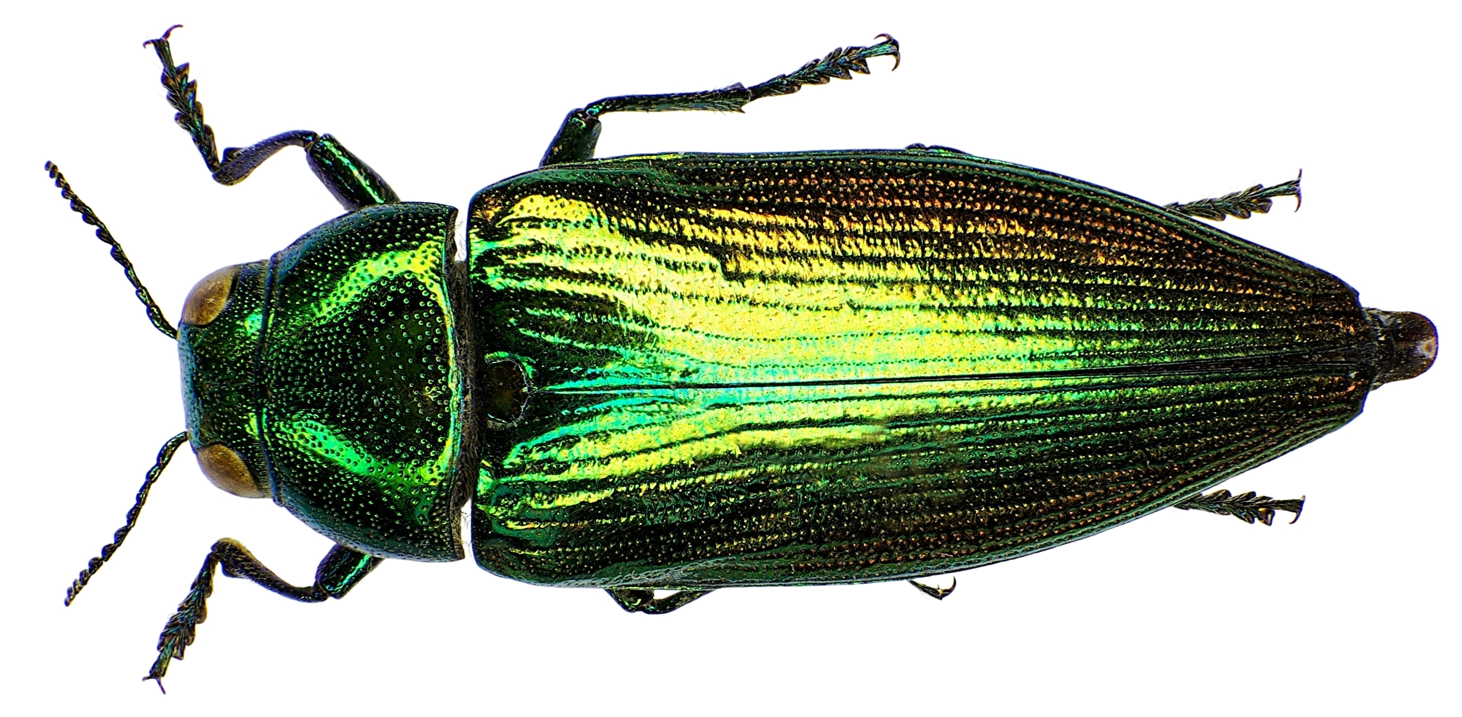 Eurythyrea micans